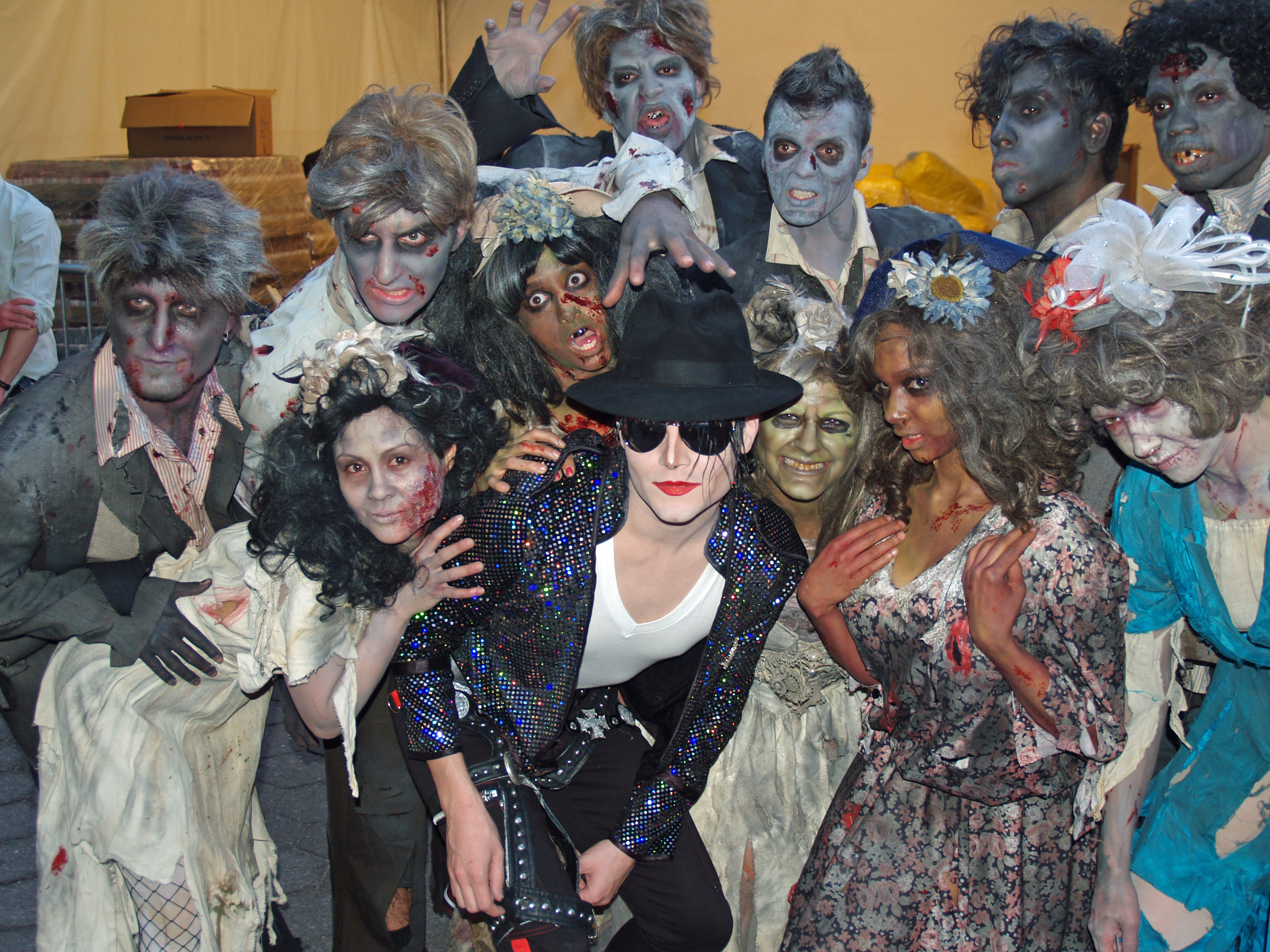 Michael Jackson impersonator Pete Carter at the 25th anniversary celebration of Thriller for the 2008 Tribeca Film Festival. Pictured is the cast of Step It Up and Dance!, who put on a show with the original choreographer of the Thriller video. Photographer's blog post about this image and the death of Michael Jackson.The photographer dedicates this portrait to Wikipedia editor Realist2, for awesome article contributions related to popular culture..